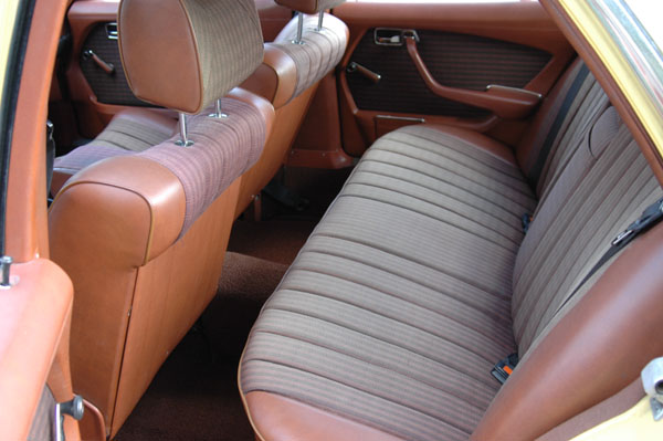 Mercedes-Benz W116 350SE 1975 Rear Interior View.jpg